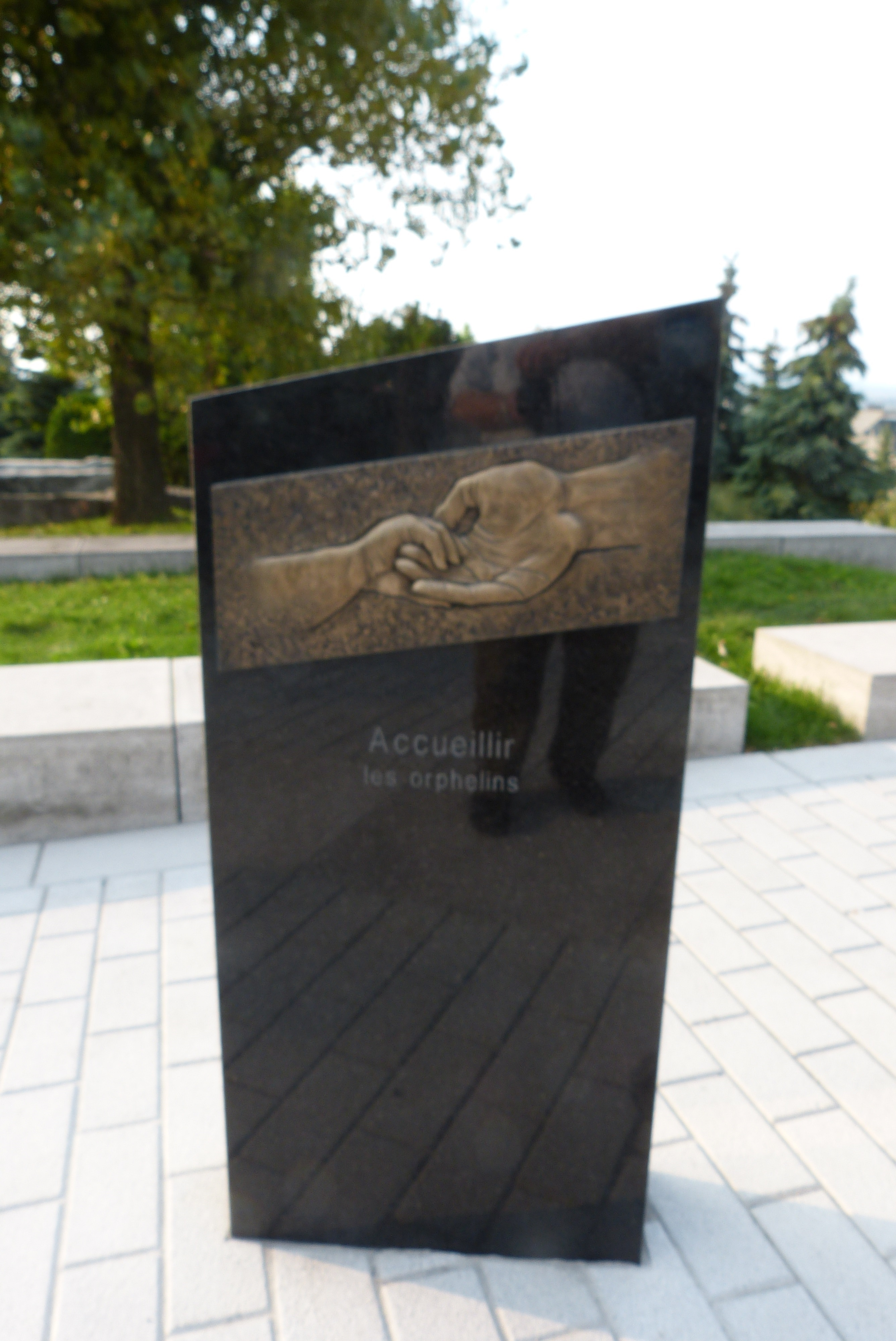 Detail from the statue to the Sisters of Charity, Quebec City